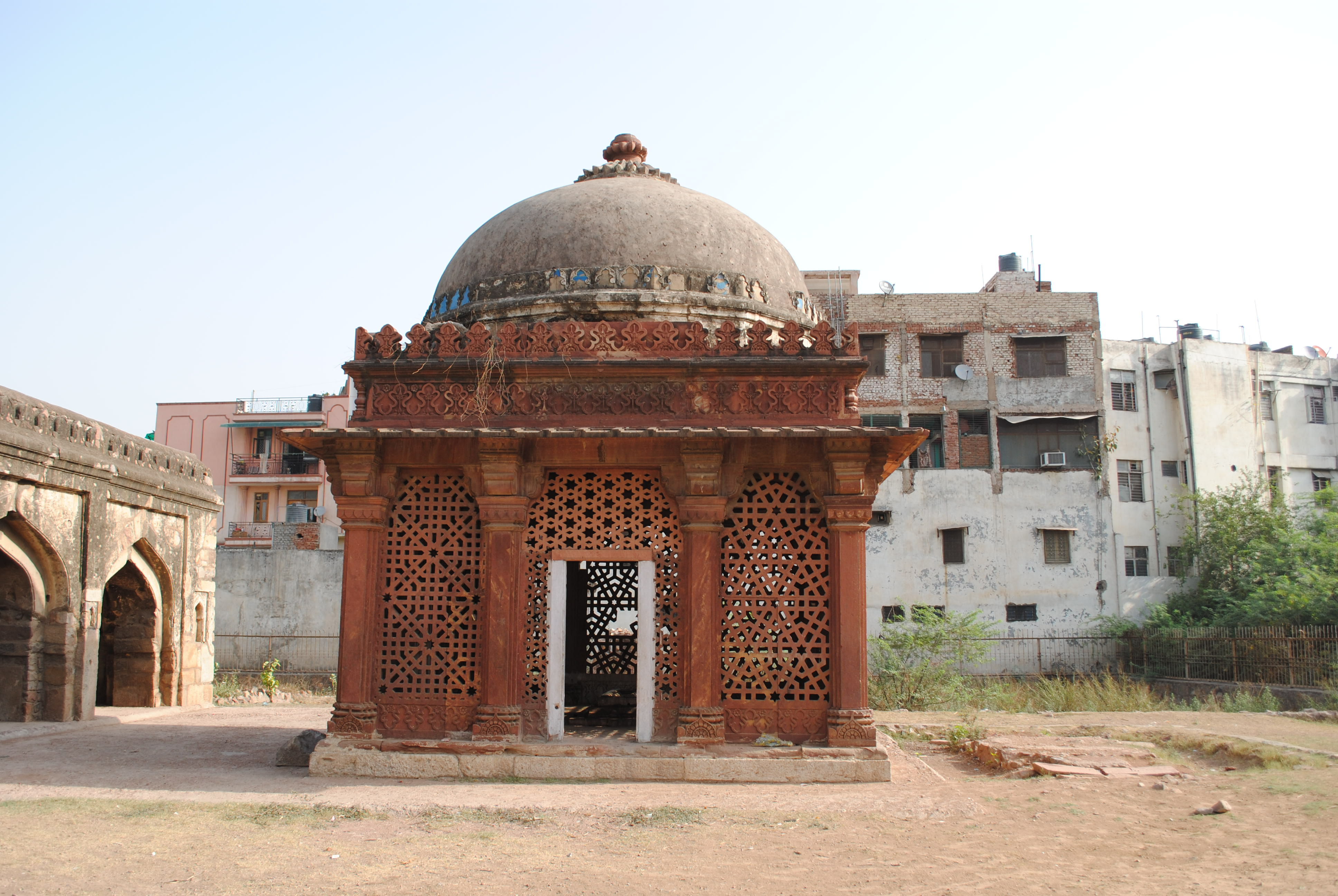 The monument is officially known as Tomb of Usuf-Quttal, At Khirkee in field no.81 min, Property of Shamlat deh., Delhi, and officially is the only way it shall be known as it seems, the ASI boards in worse condition than the monument itself. Shaikh Usuf-Quttal was a disciple of Qazi Jalal-ud-din of Lahore. He died in about 1527, after which the tomb was built. Like Shaikh 'Ala-ud-Din's tomb, this tomb also rests on twelve pillars, with other details also being similar. Close by are the remains of a mosque and several graves.